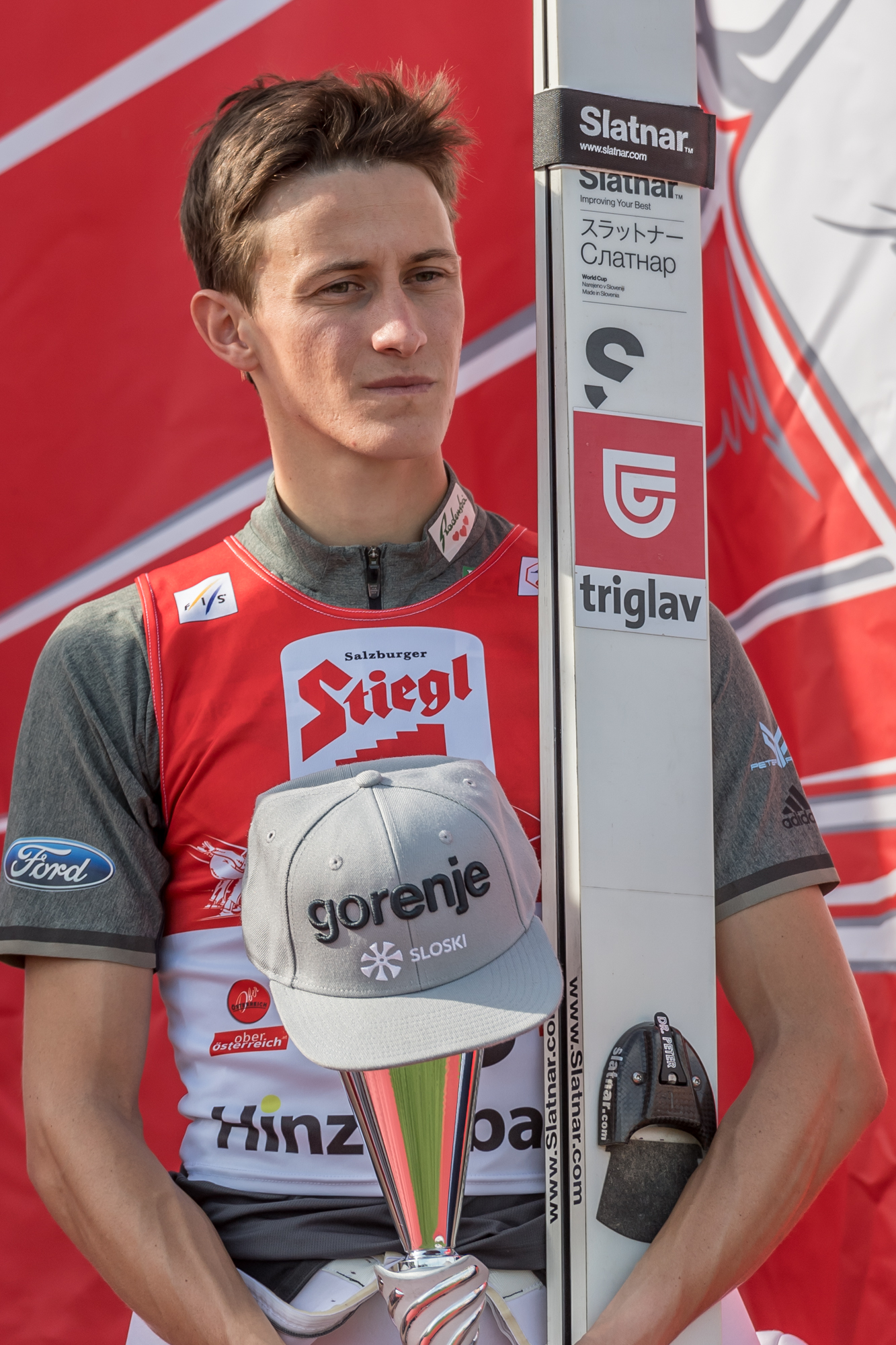 Hinzenbach, Austria, FIS Ski Jumping Grand Prix 2016